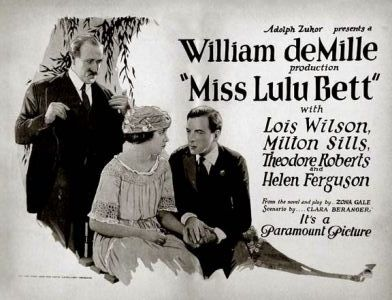 Theatrical poster for the 1921 film Miss Lulu Bett.